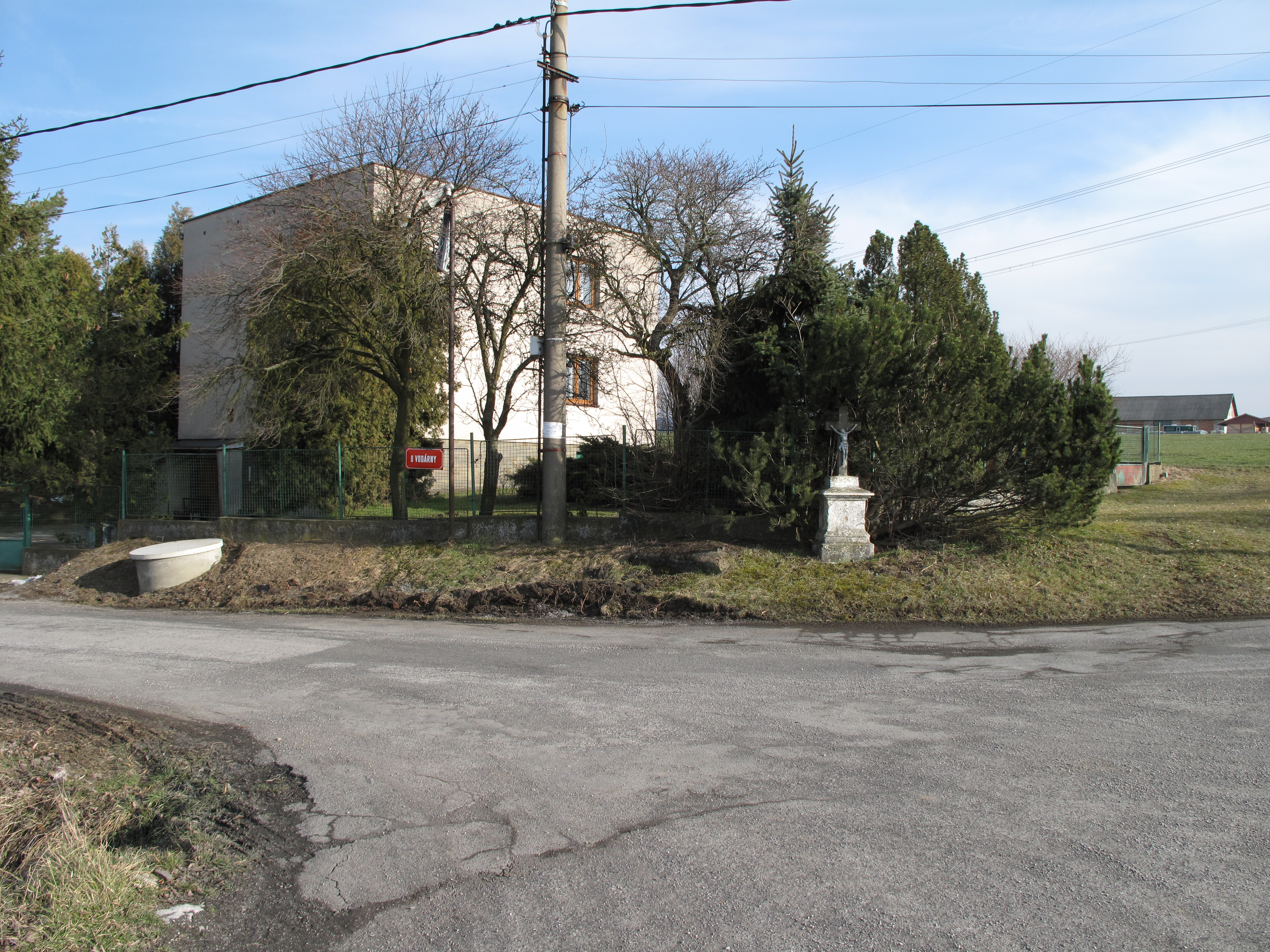 House in Dolní Vlence village, Beroun District, Czech Republic.